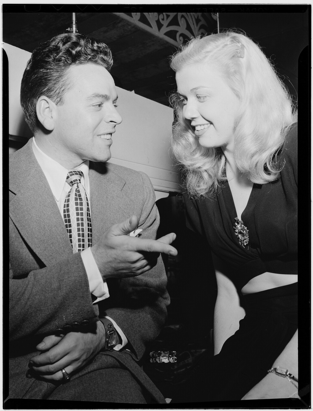 Gottlieb, William P., 1917-, photographer. [Portrait of Doris Day and Les Brown, Aquarium, New York, N.Y., ca. July 1946] 1 negative : b&w ; 3 1/4 x 4 1/4 in. Caption from Down Beat: Les Brown and Doris Day Notes: Gottlieb Collection Assignment No. 103 Reference print available in Music Division, Library of Congress. Purchase William P. Gottlieb Forms part of: William P. Gottlieb Collection (Library of Congress). In: "What's keeping Les out of the top brackets?" Down Beat, v. 13, no. 15 (July 15, 1946), p. 3. Subjects: Day, Doris, 1924- Brown, Les, 1912- Jazz musicians--1940-1950. Women jazz musicians--1940-1950. Jazz singers--1940-1950. Actresses--1940-1950. Composers--1940-1950. Aquarium Format: Portrait photographs--1940-1950. Group portraits--1940-1950. Film negatives--1940-1950. Rights Info: Mr. Gottlieb has dedicated these works to the public domain, but rights of privacy and publicity may apply. Repository: (negative) Library of Congress, Prints & Photographs Division, Washington D.C. 20540 USA, (reference print) Library of Congress, Music Division, Washington D.C. 20540 USA, Part Of: William P. Gottlieb Collection (DLC) 99-401005 General information about the Gottlieb Collection is available at Persistent URL: Call Number: LC-GLB13- 0183 This work is from the William P. Gottlieb collection at the Library of Congress. Rights and restrictions.In accordance with the wishes of William Gottlieb, the photographs in this collection entered into the public domain on February 16, 2010.